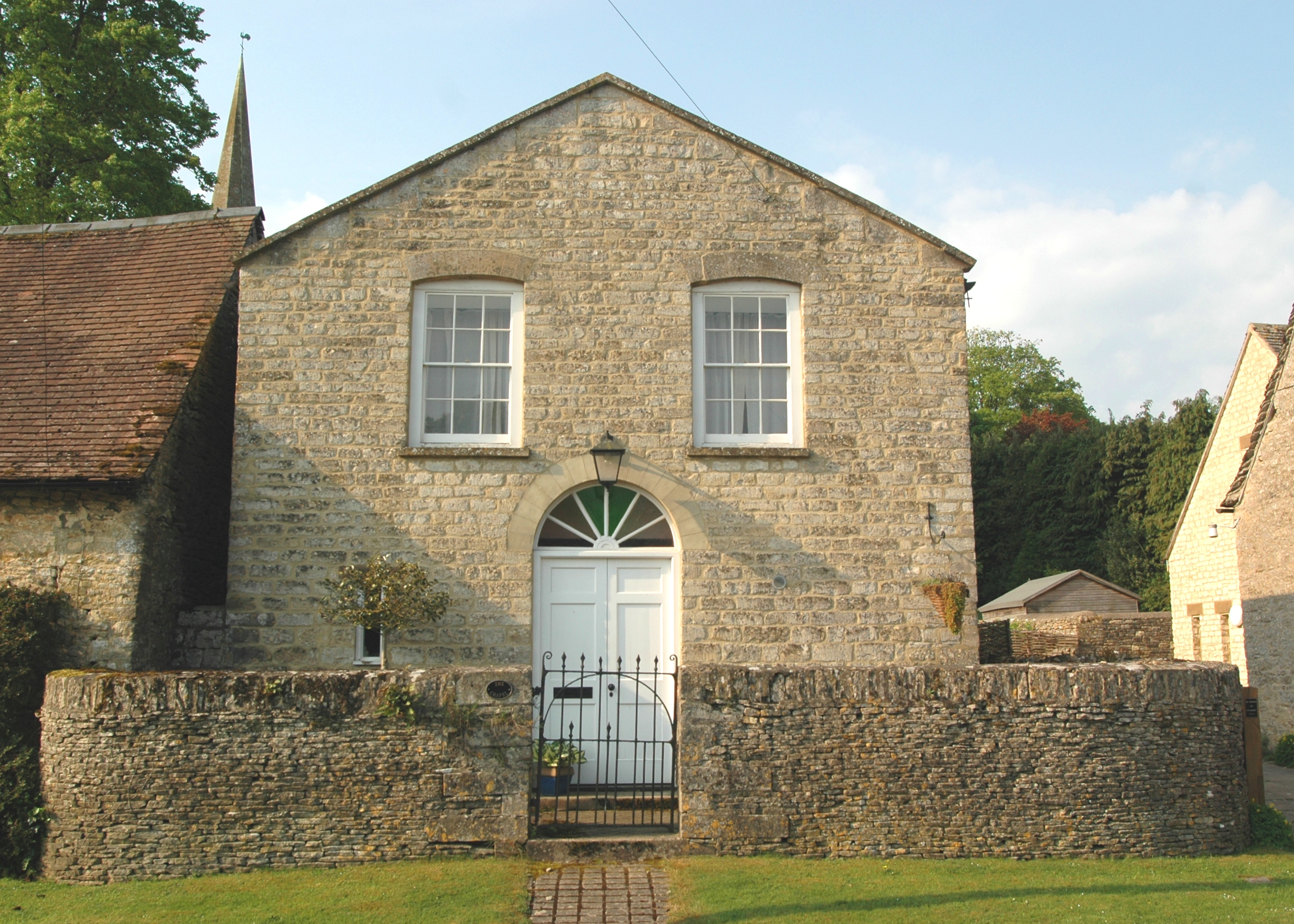 Former Methodist chapel, High Street, Ramsden, Oxfordshire, seen from north-northeast